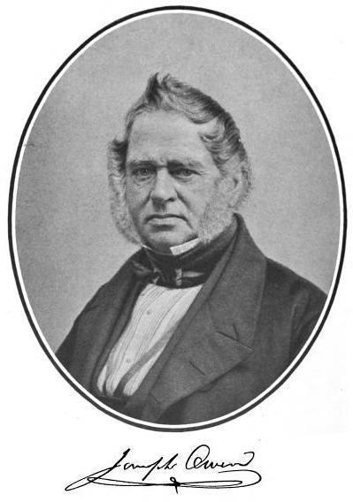 Joseph Owen (1789-1862), English-born industrialist in Denmark. Portrait and signature.